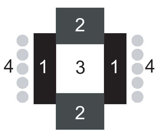 scheme of induction heating hotpress